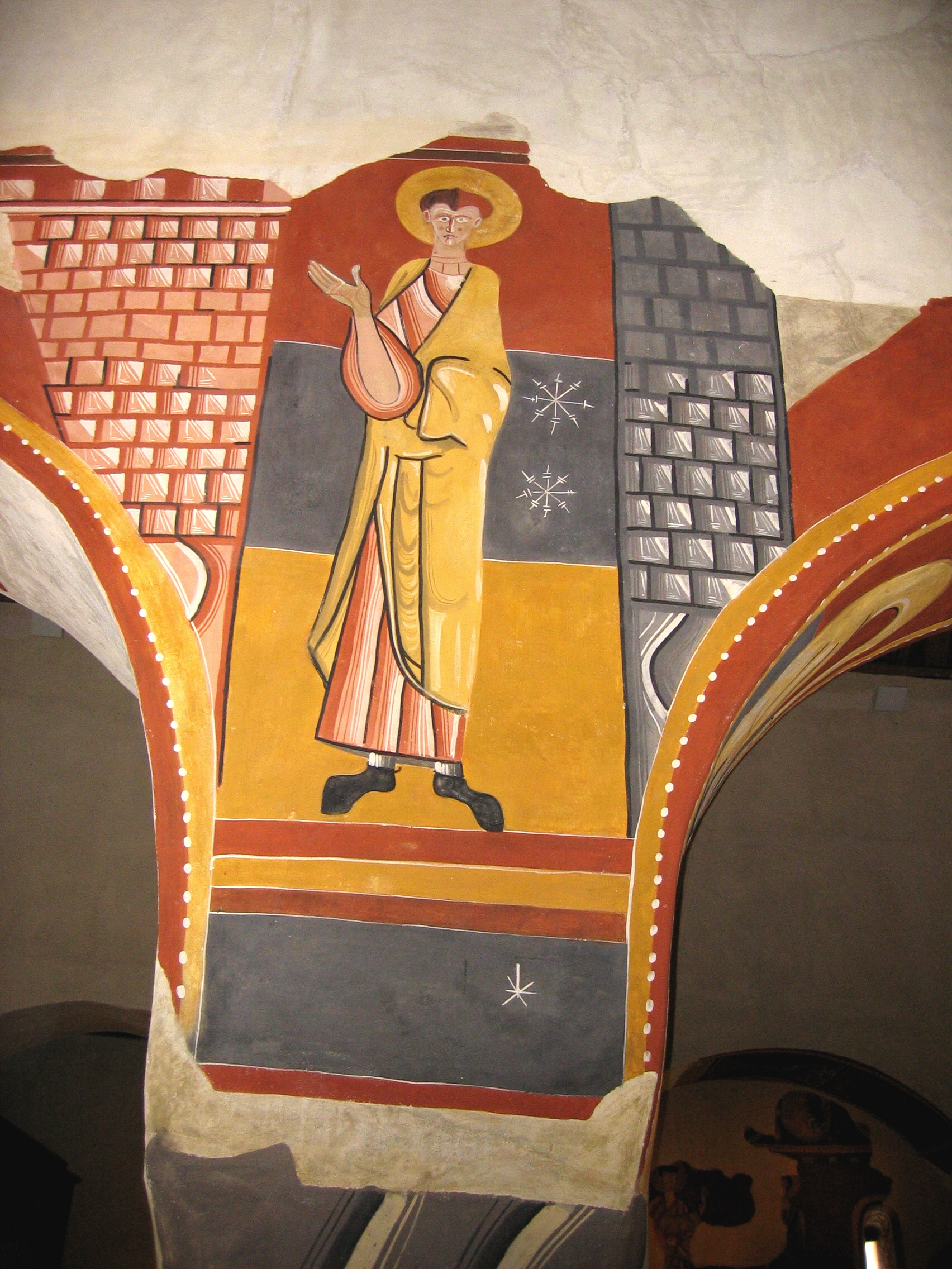 church of Sant Joan de Boi